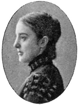 Carolina Benedicks-Bruce (1856-1935). Image scanned from the book "Svenskt Porträttgalleri XX - Arkitekter, Bildhuggare, Målare m.fl. " ("Swedish Portrait Gallery XX - Architects, Sculptors, Painters, ") published 1901